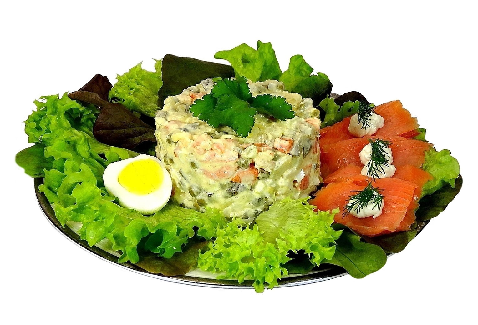 Russian Salad Olivier served with salmon and lettuce wraps